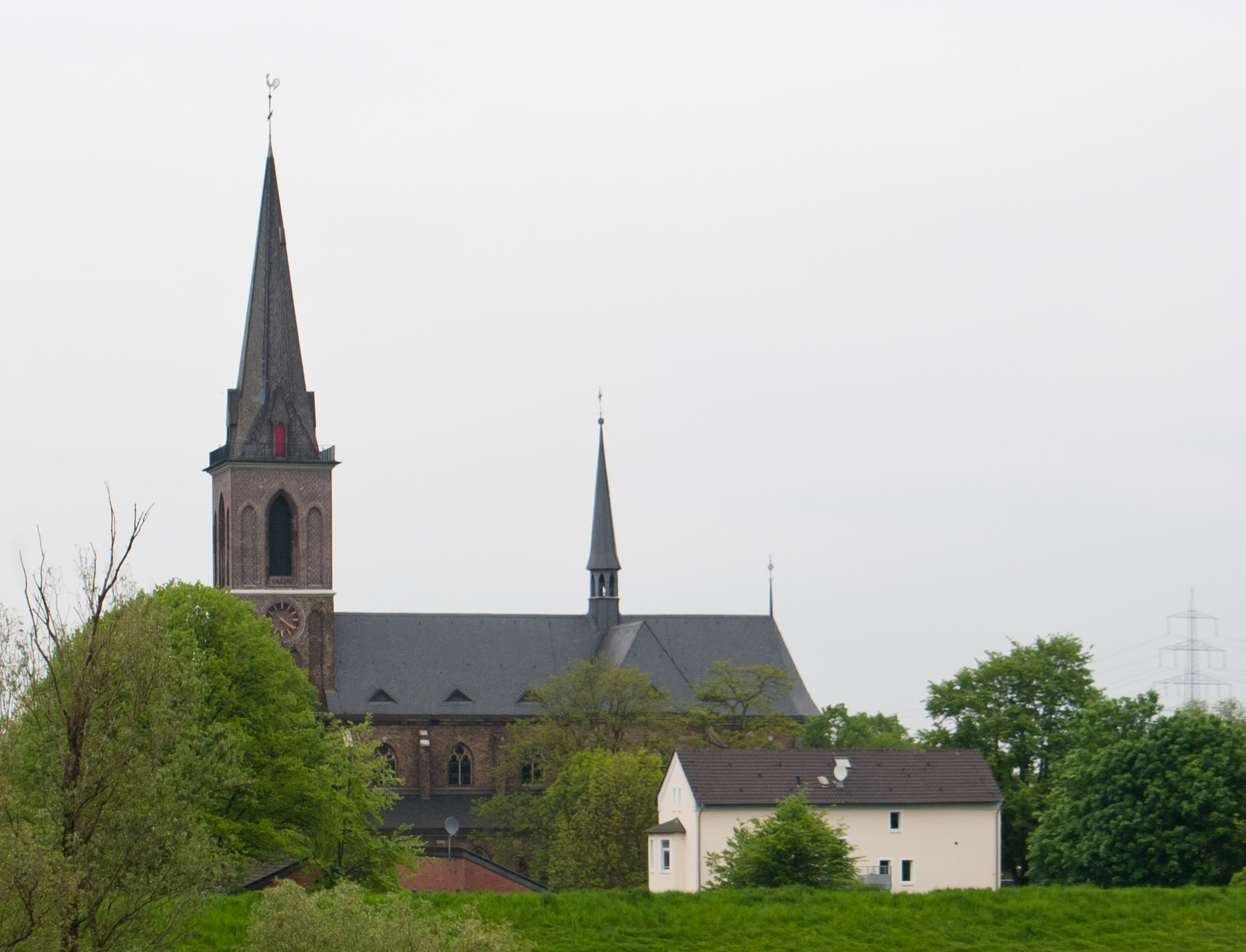 Duisburg (North Rhine-Westphalia, Germany) – borough Walsum, district Alt-Walsum – Catholic Saint Dionysius Church This image shows a heritage building in Germany, located in the North Rhine-Westphalian city Duisburg (no. 71). This photograph was taken with a Nikon D3000.